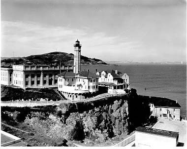 Public Domain statement here; 1909 Alcatraz Lighthouse